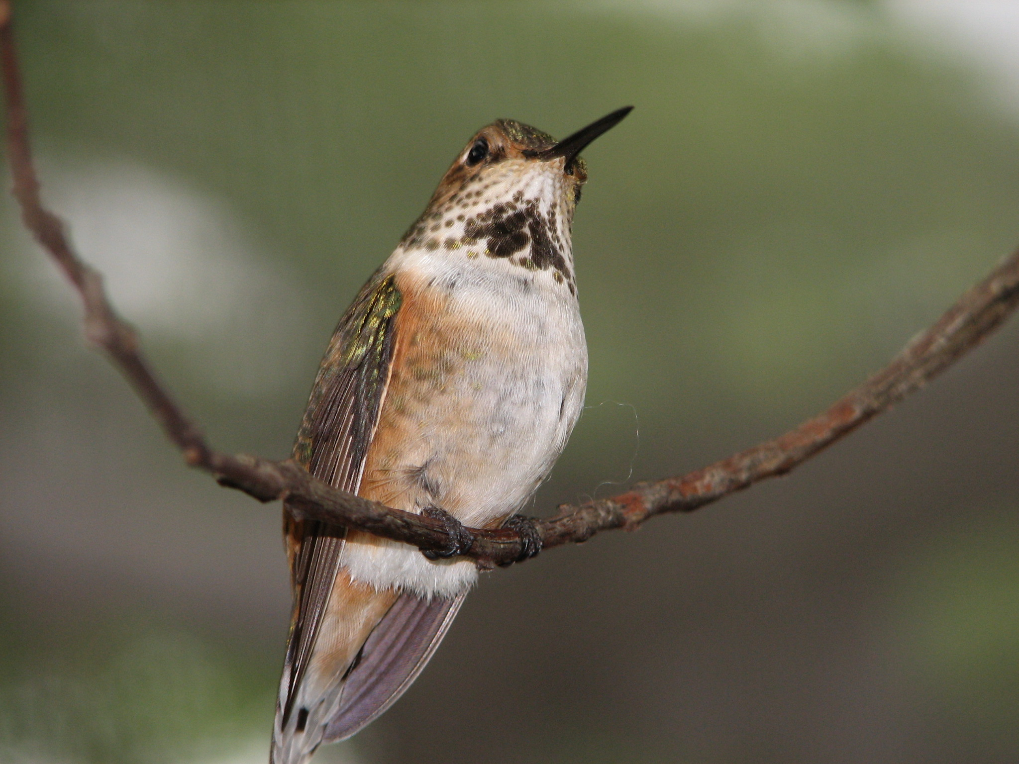 Image taken at Butterfly World Male Stellula calliope Calliope Hummingbird